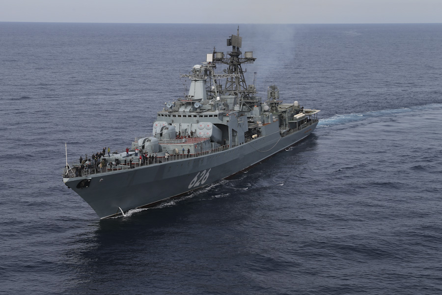 Permanent group of the Russian Navy in the Mediterranean Sea provides air defence in Syria